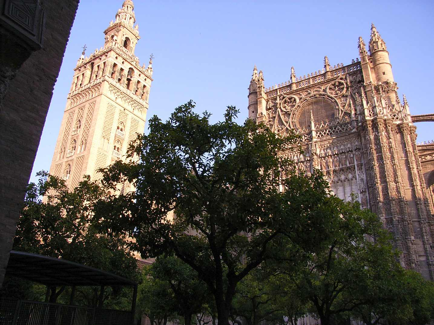 Westfront, Patio de los Naranjos and Giralda of the Cathedral of Sevilla